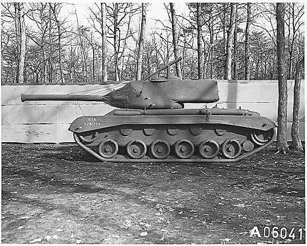 Inflatable dummy tank